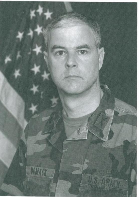 LTC Steve Womack commanded 2nd Battalion, 153rd Infantry during its deployment to support the MFO mission in Egypt in 2002. He was later elected Mayor of the City of Rogers, Arkansas